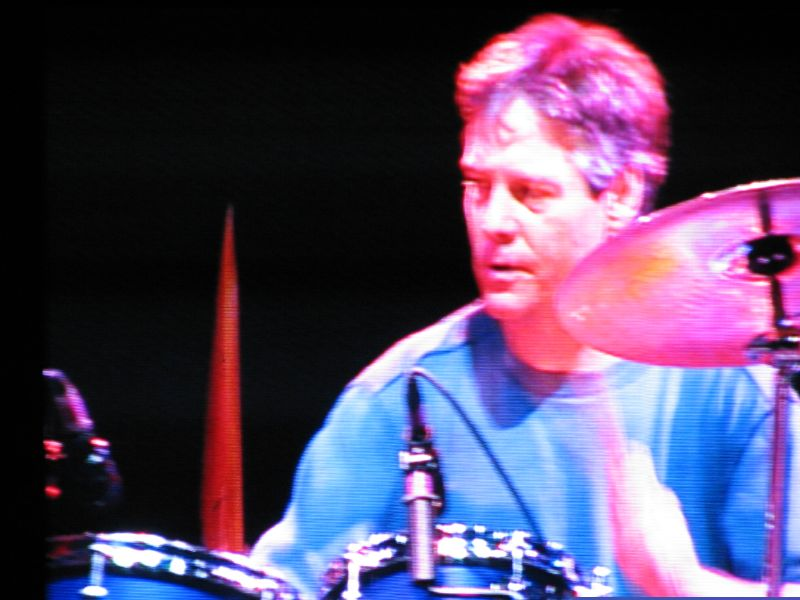 Jeff Sipe, drummer with Phil and Friends, and Susan Tedeschi